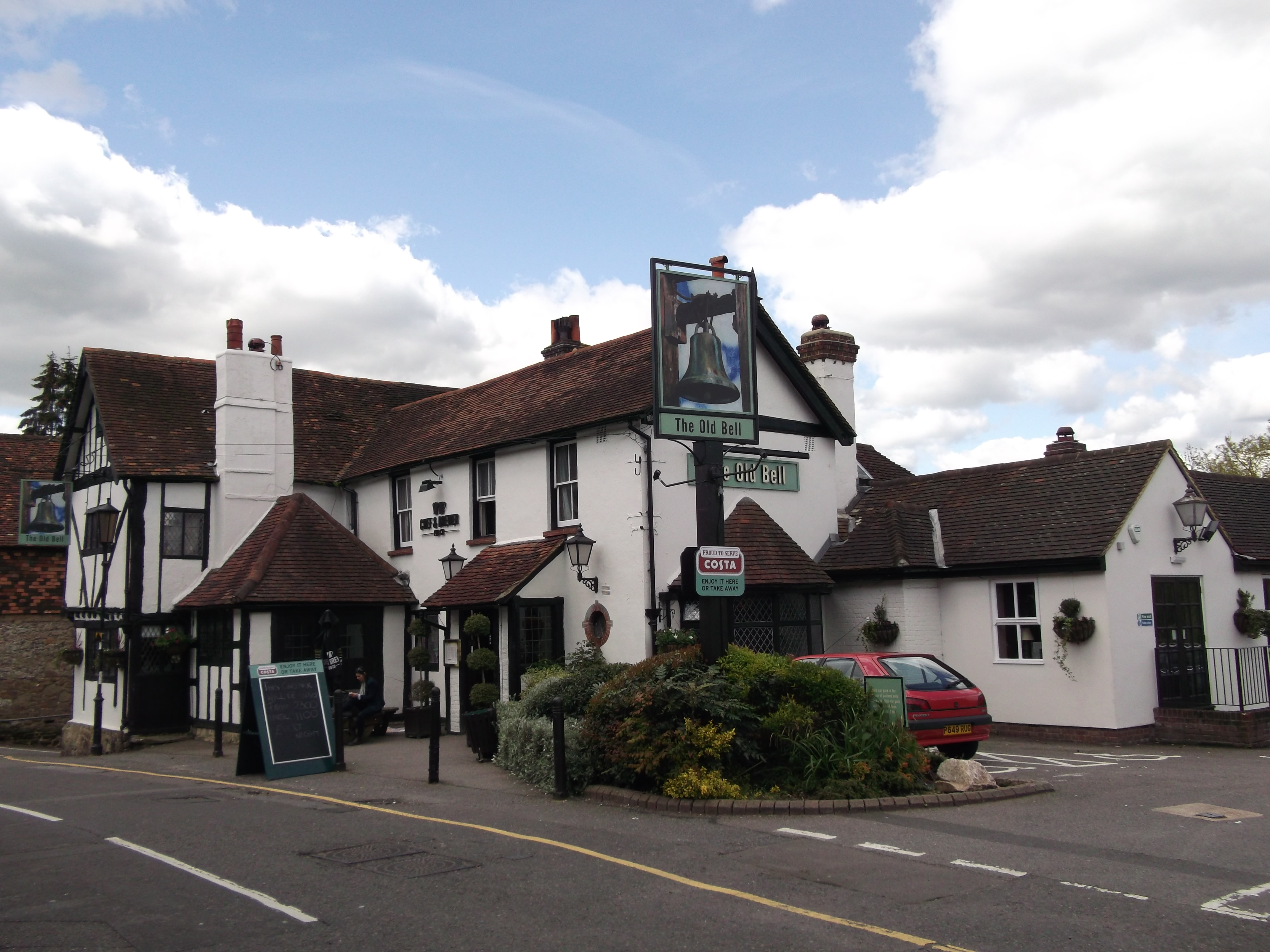 Old Bell Inn, Oxted